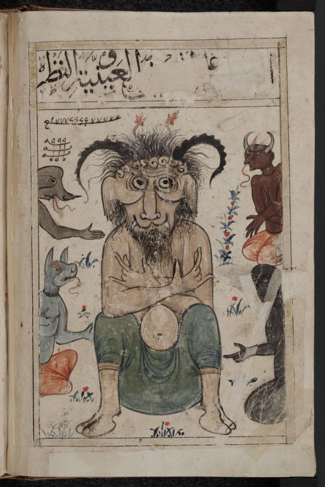 Demons. Kitab al-Bulhan = composite astrology/astronomy/geomancy Arabic manuscript. Original held by the Bodleian Libraries Shelfmark; MS. Bodl. Or. 133. Fol. 28b